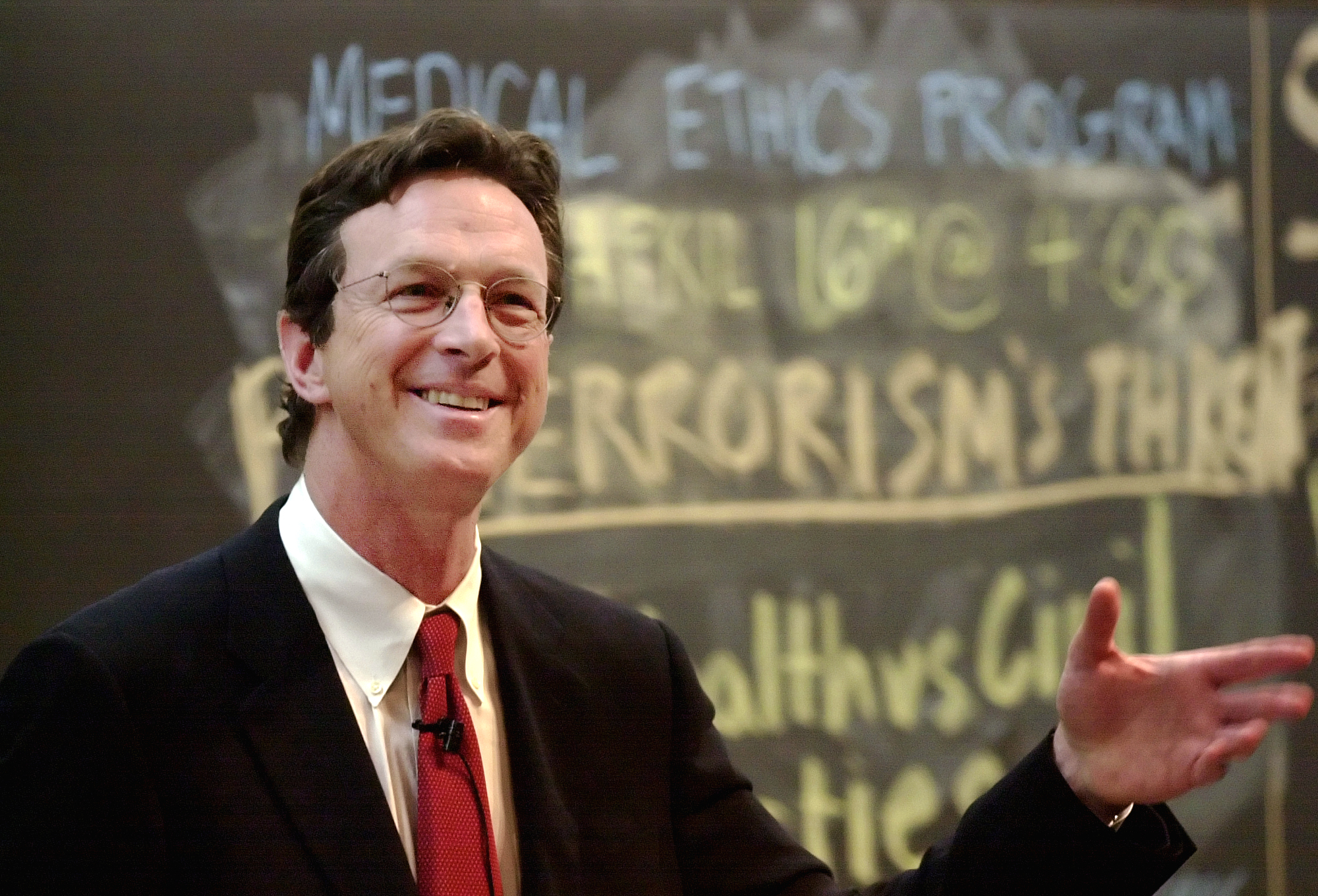 American author and speaker Michael Crichton speaking at Harvard.